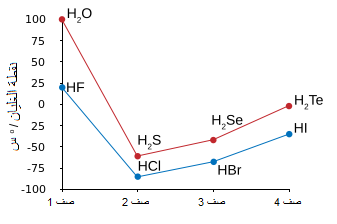 نقاط الغليان لهيدريدات الكالكوجينات والهالوجينات